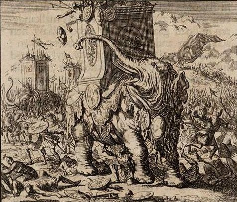 Eleazar doodt de gewapende olifant en wordt verpletterd onder het neerstortende dier